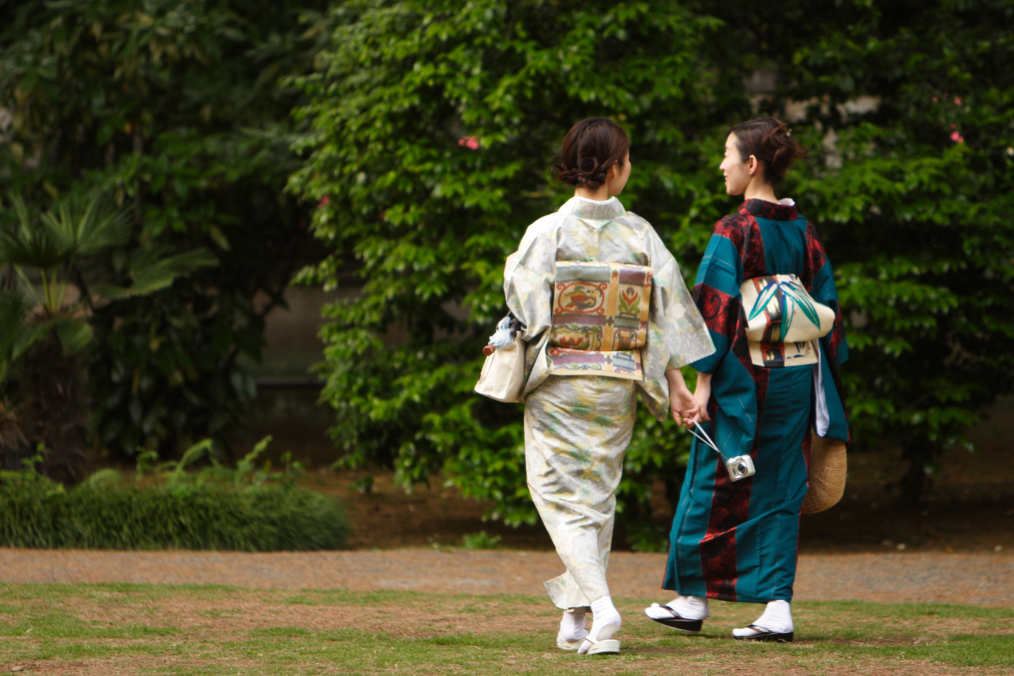 Women wearing kimonos in Tokyo, Japan [MAP]